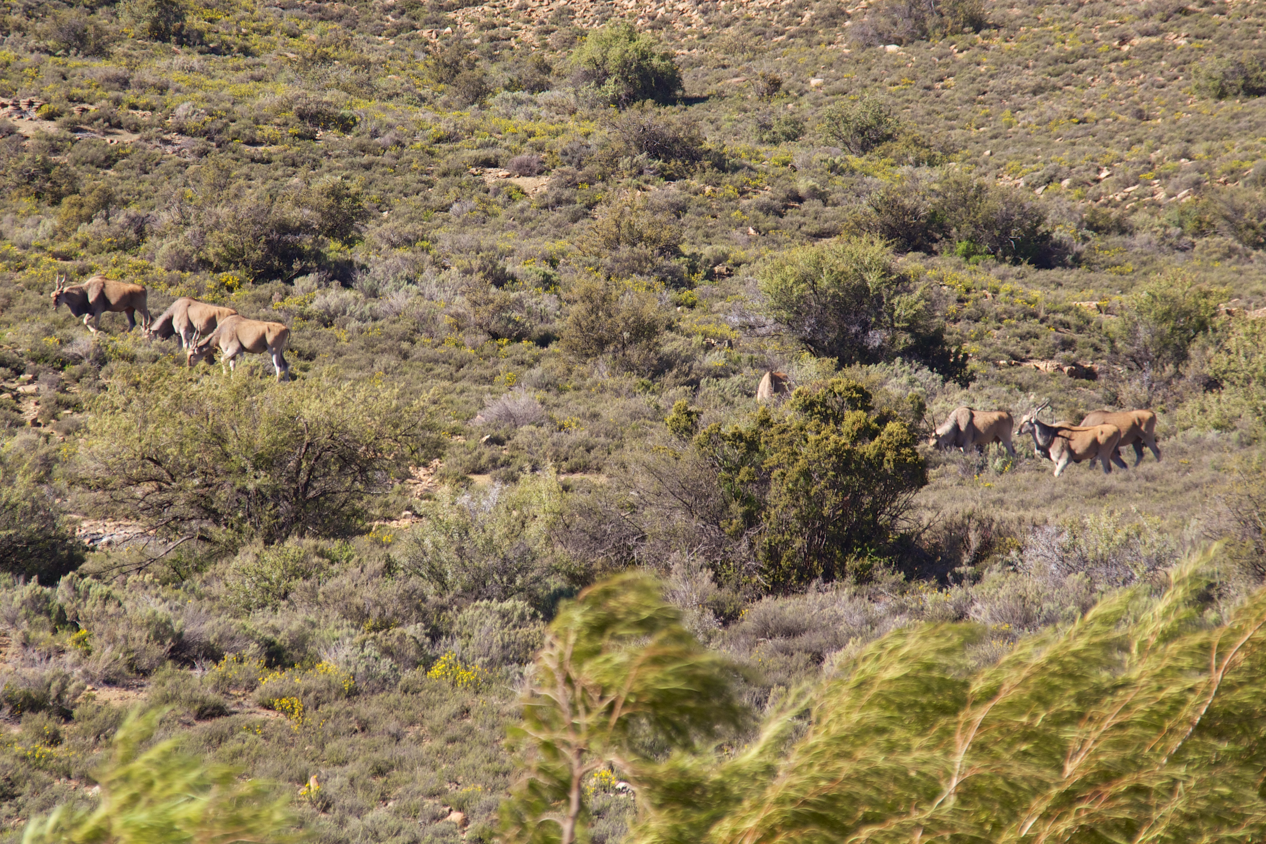 R381 road from Loxton to Beaufort West, Northern Cape, South Africa.